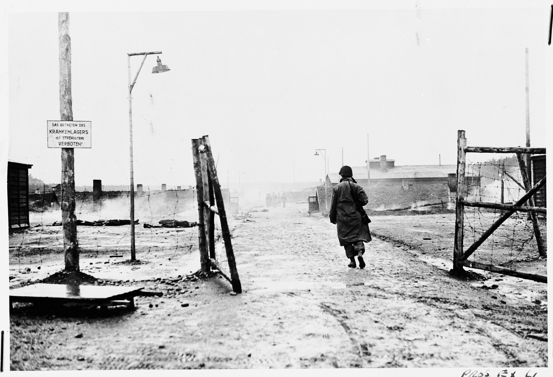 American soldier walks through